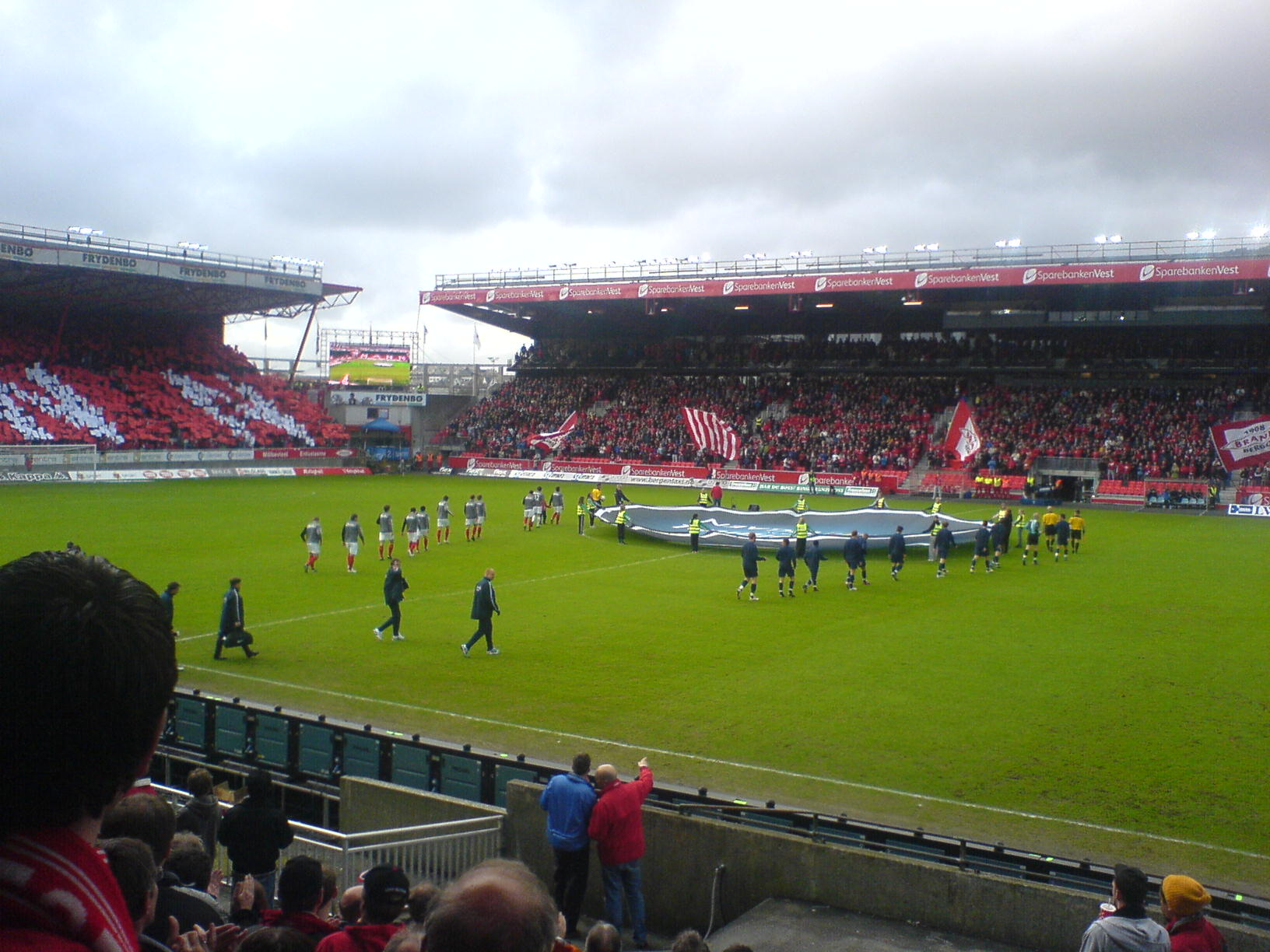 Brann Stadion, 16th of april 2007 (Brann vs. Strømsgodset 3-1)